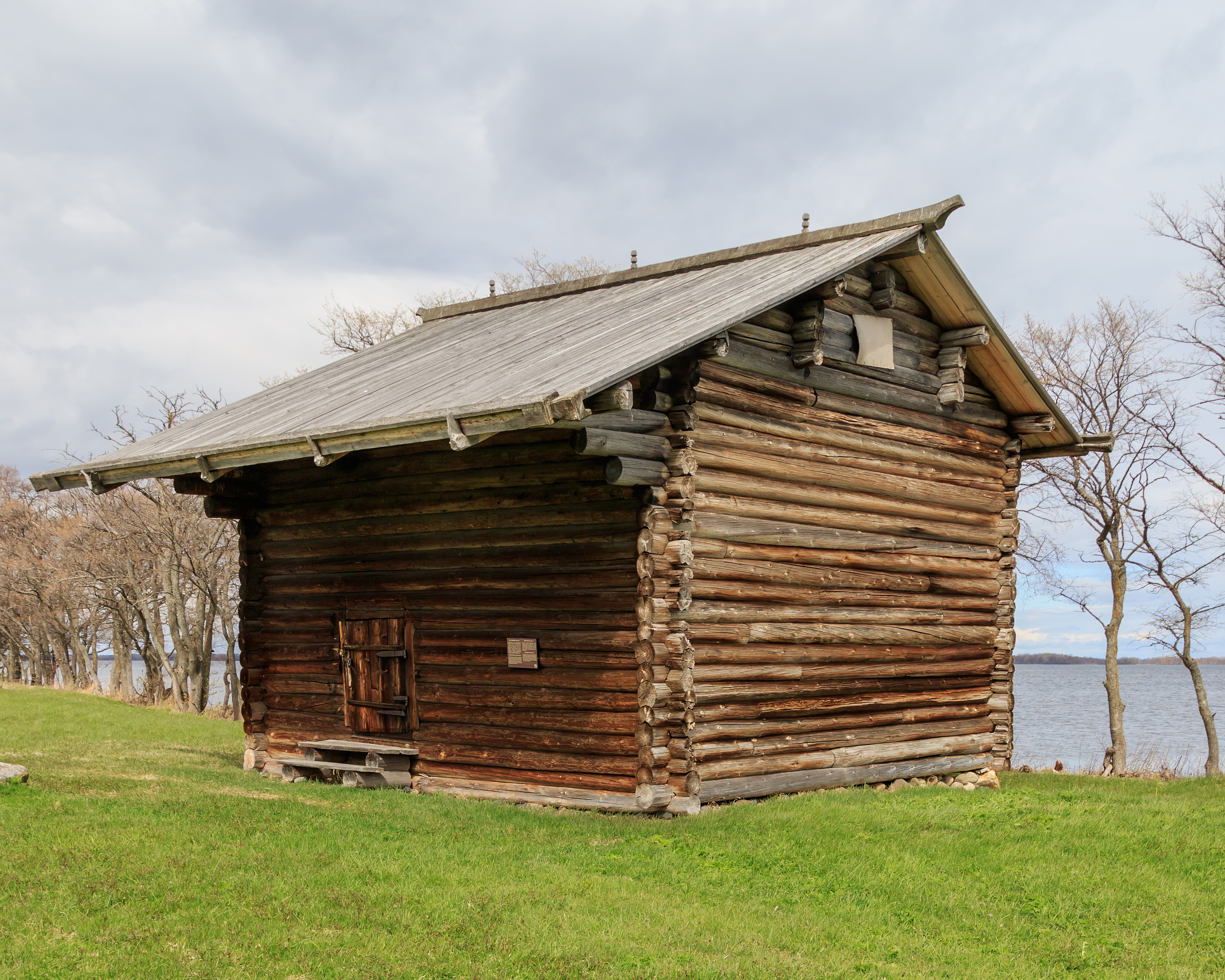 Threshing barn from Lambiselga on Kizhi Island, Republic of Karelia (Russia).